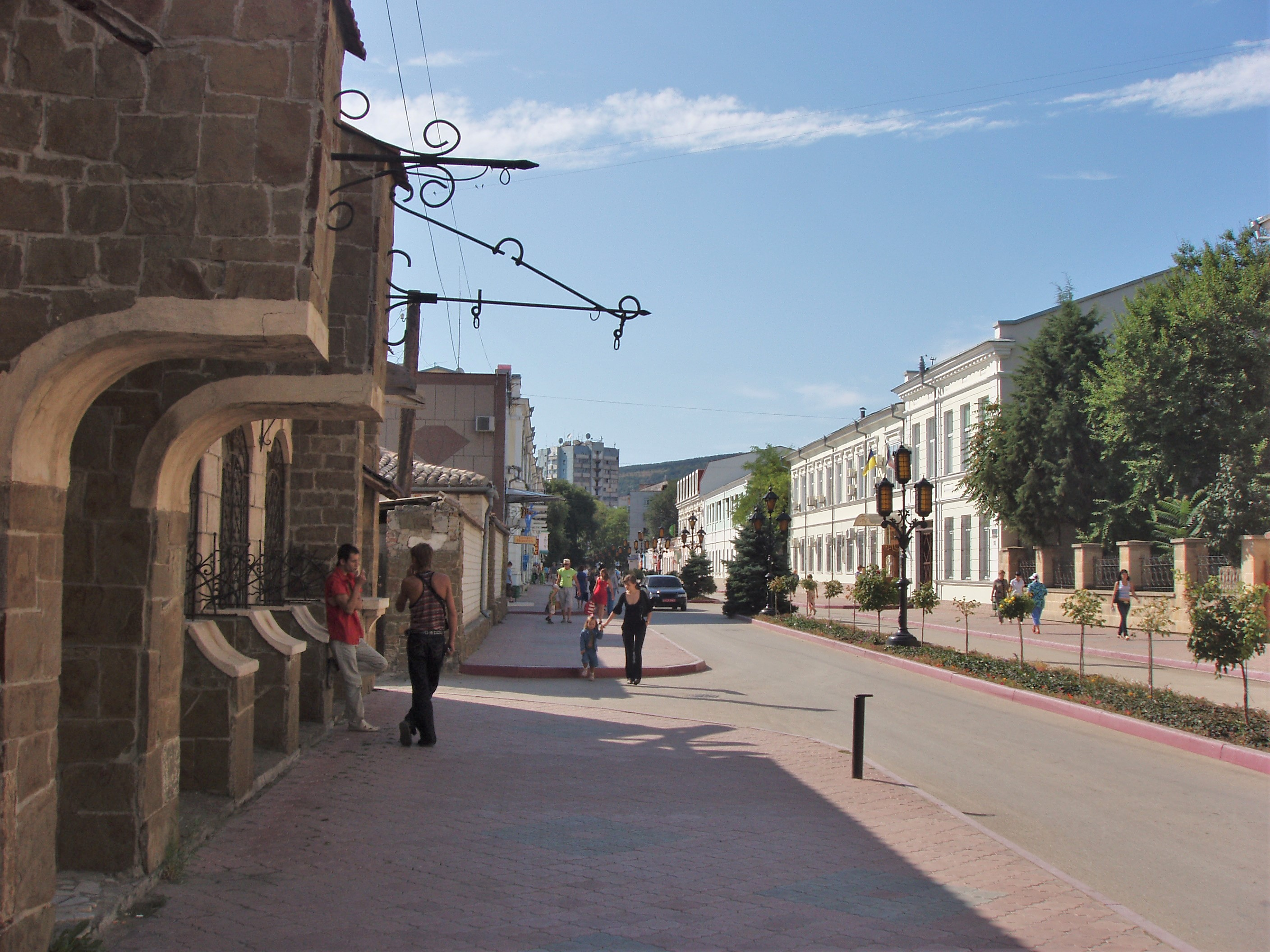 Феодосия-001